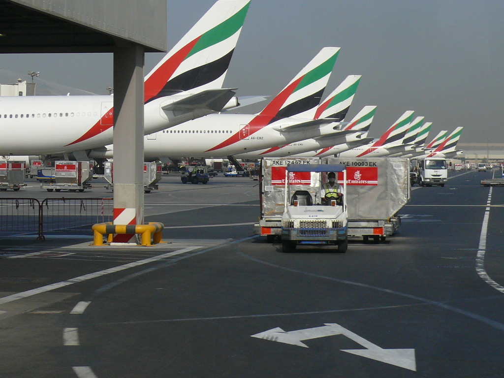 Airplanes from Emirates Airline at Dubai International Airport in Dubai, United Arab Emirates on 23 September 2007.